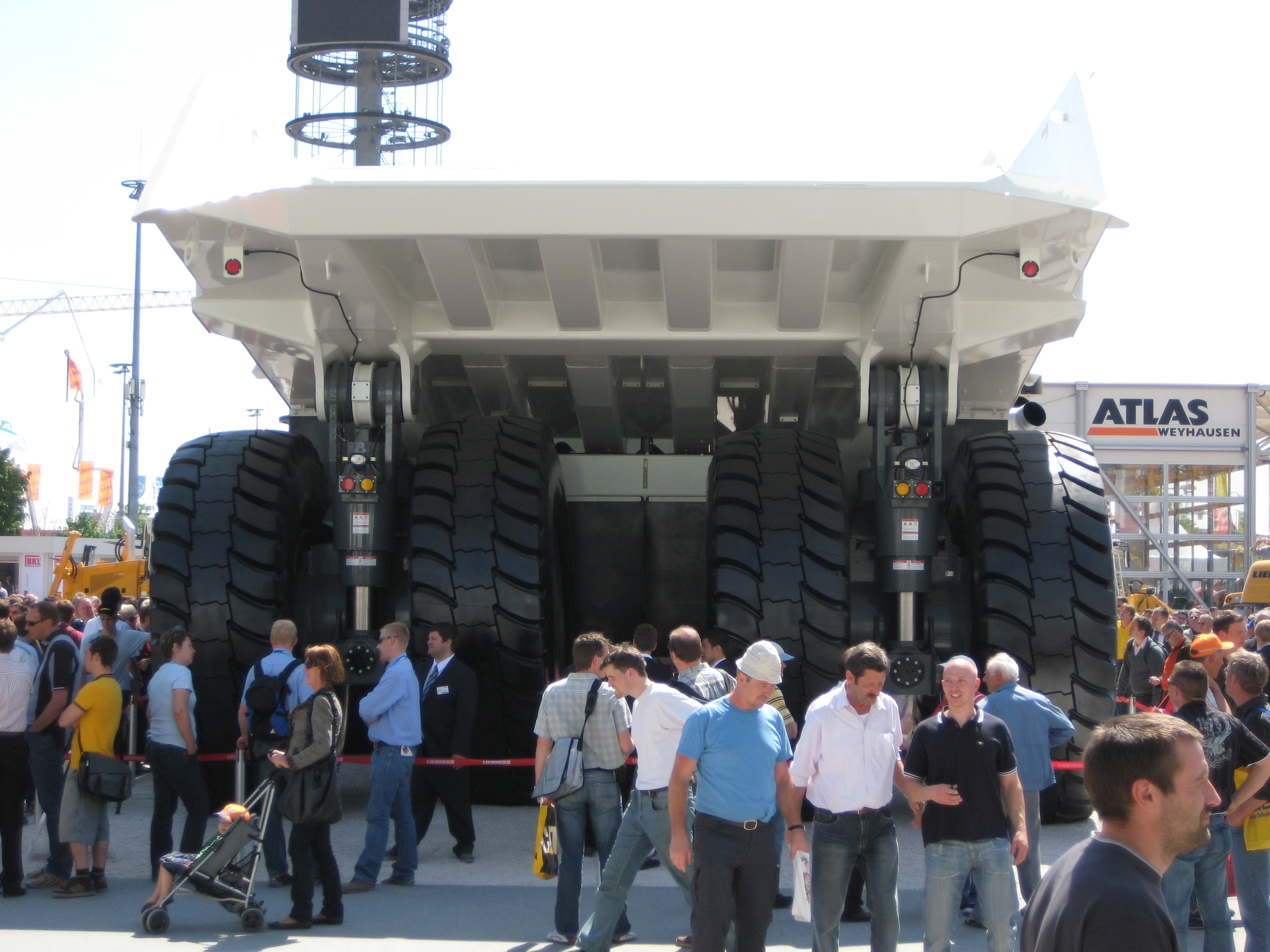 BAUMA 2007, Liebherr TI 274